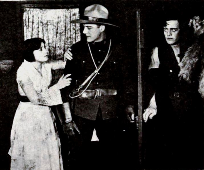 Still from the American drama film Under Northern Lights (1920) with Virginia Brown Faire, William Buckley, and Tom London, on page 64 of the September 4, 1920 Exhibitors Herald.